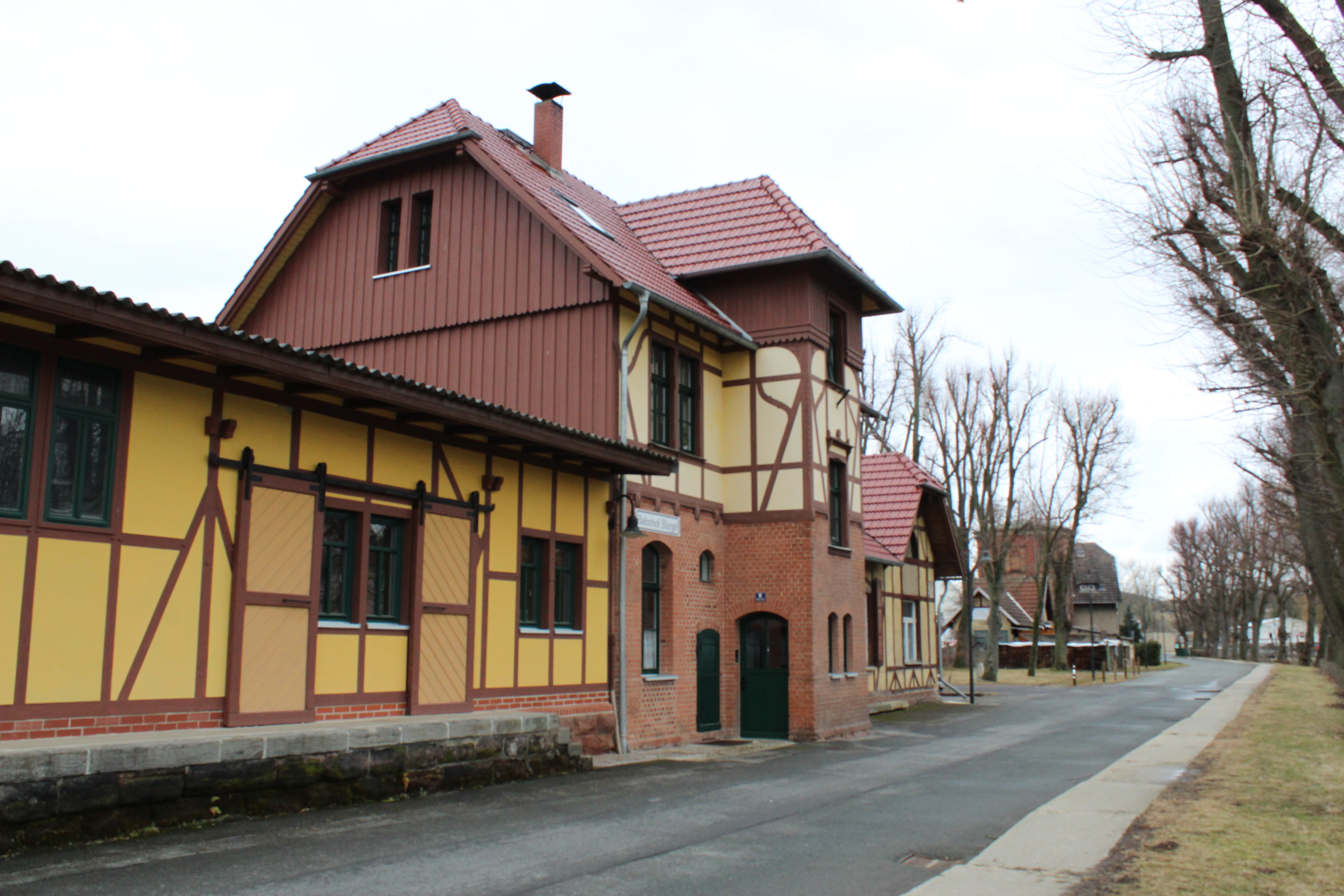 train station Bürgel